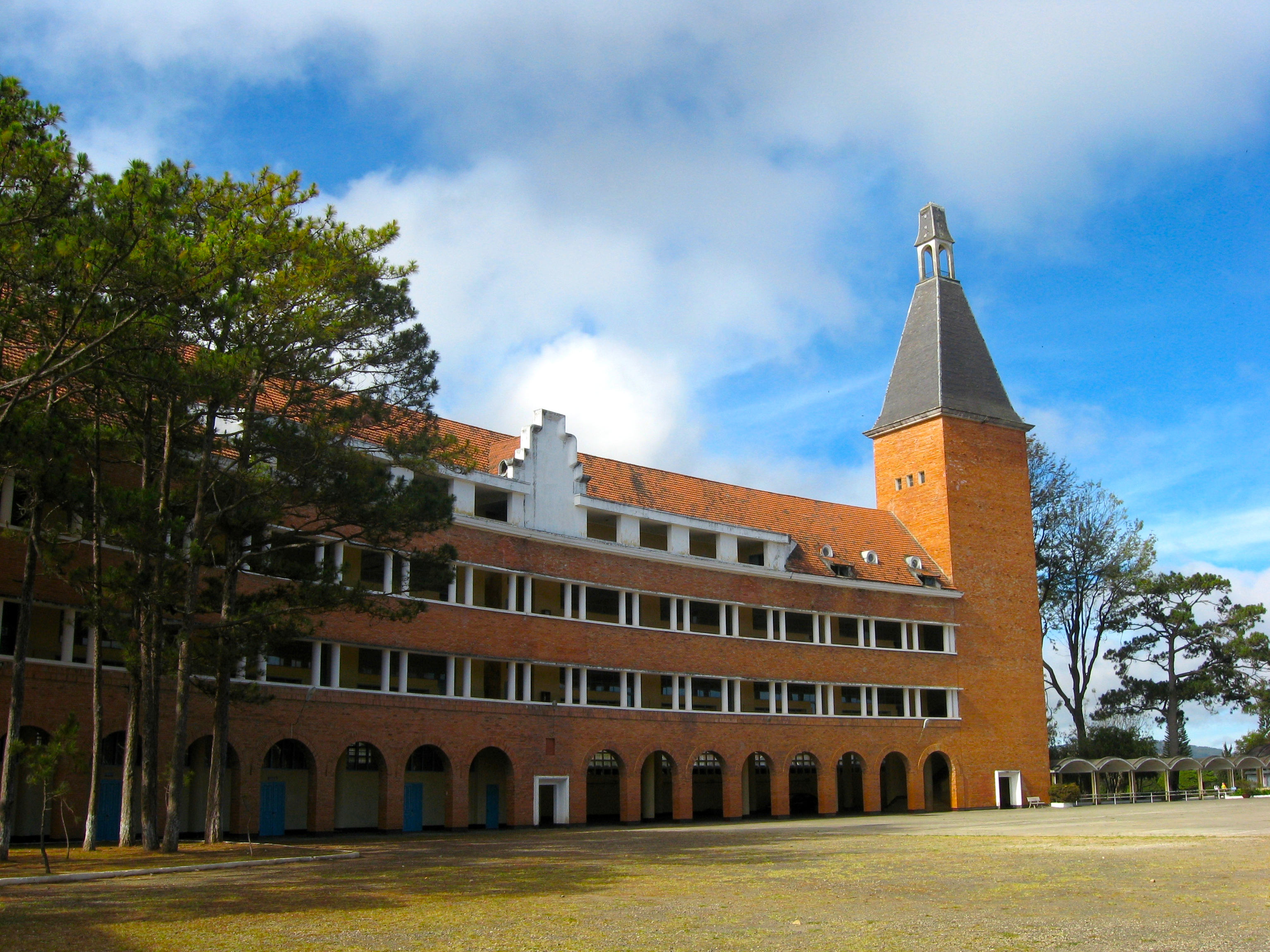 Pedagogical College of Da Lat